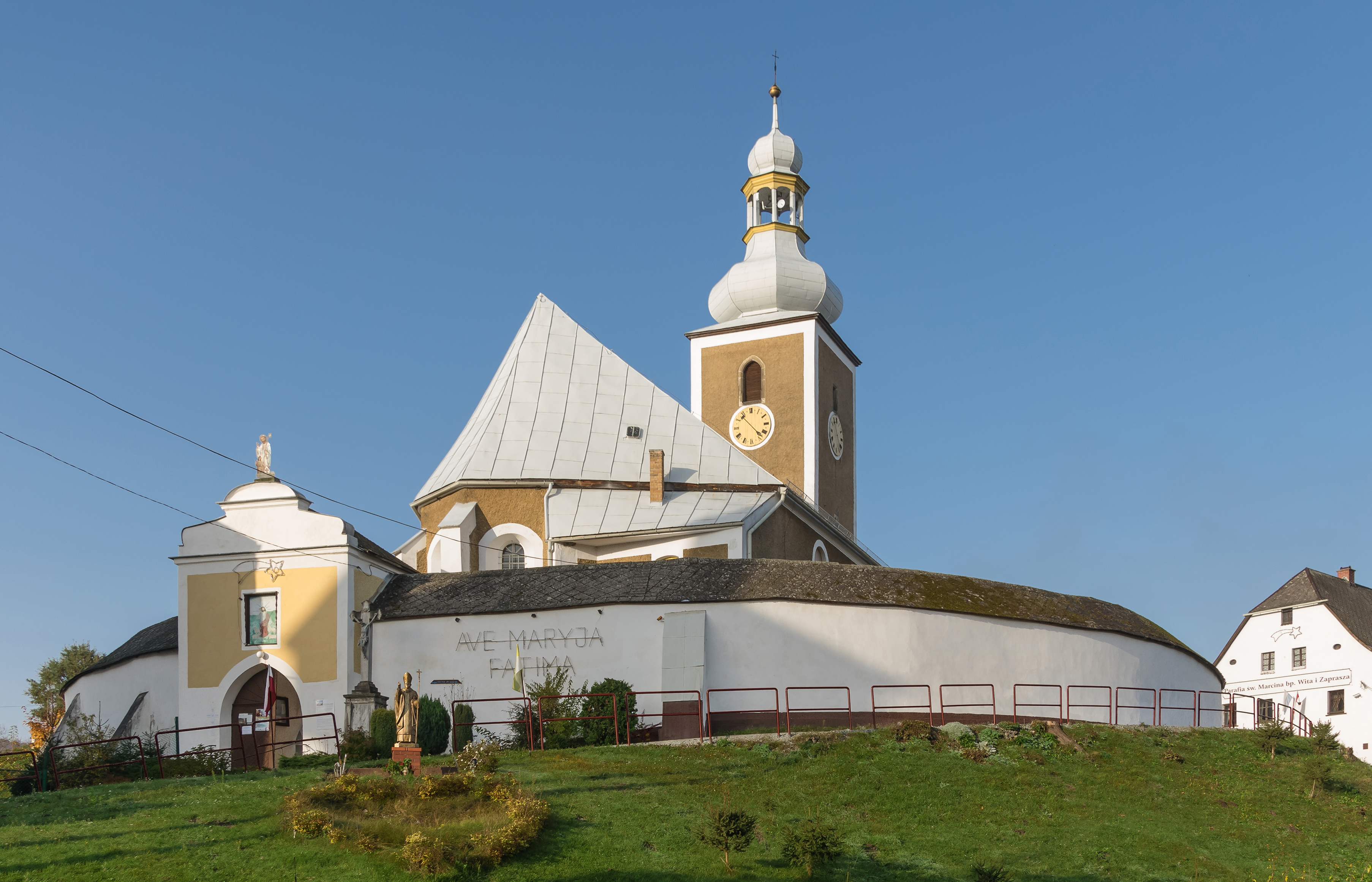 Church of Saint Martin in Żelazno